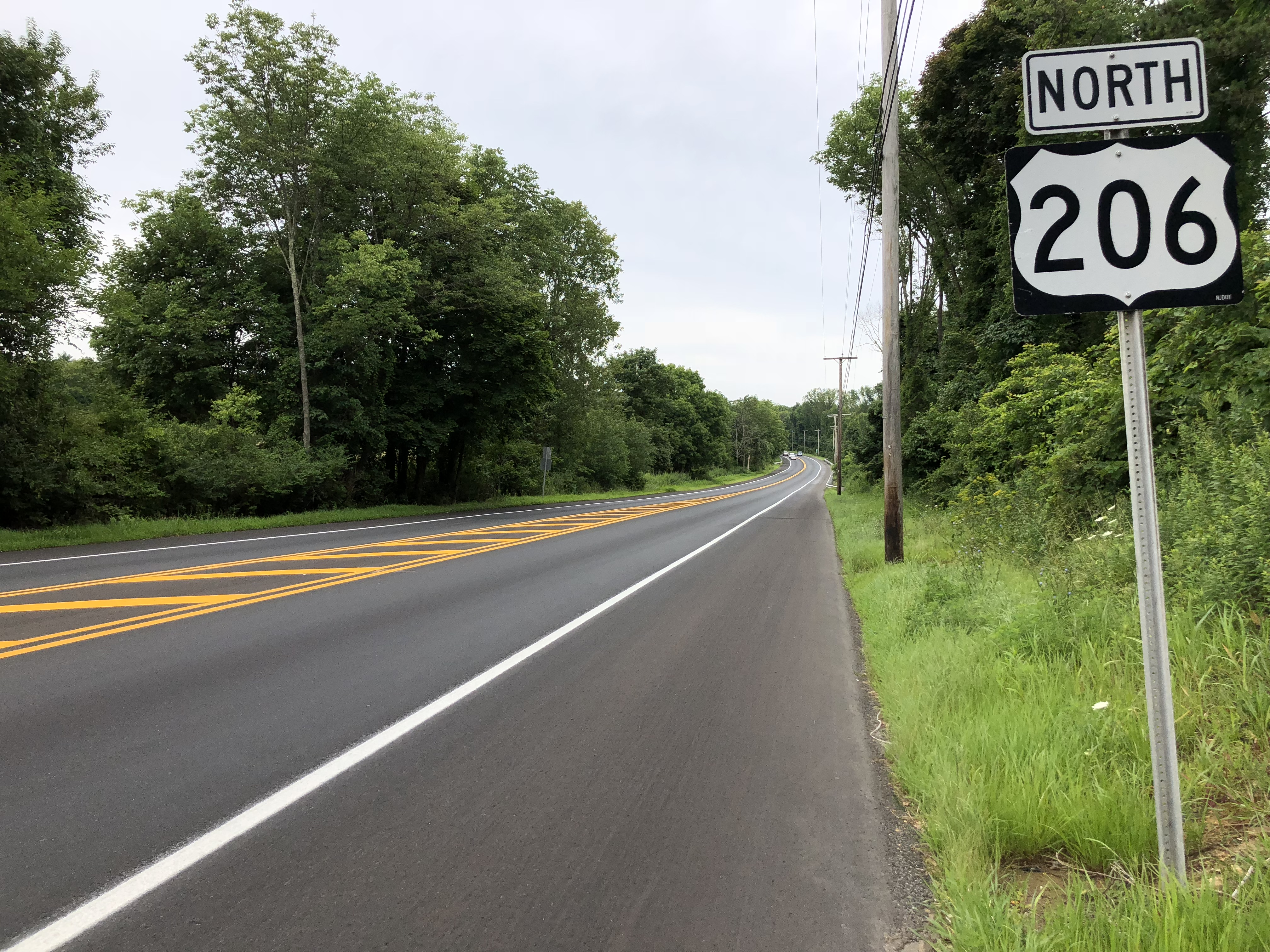 View north along U.S. Route 206 just north of Pottersville Road in Chester Township, Morris County, New Jersey